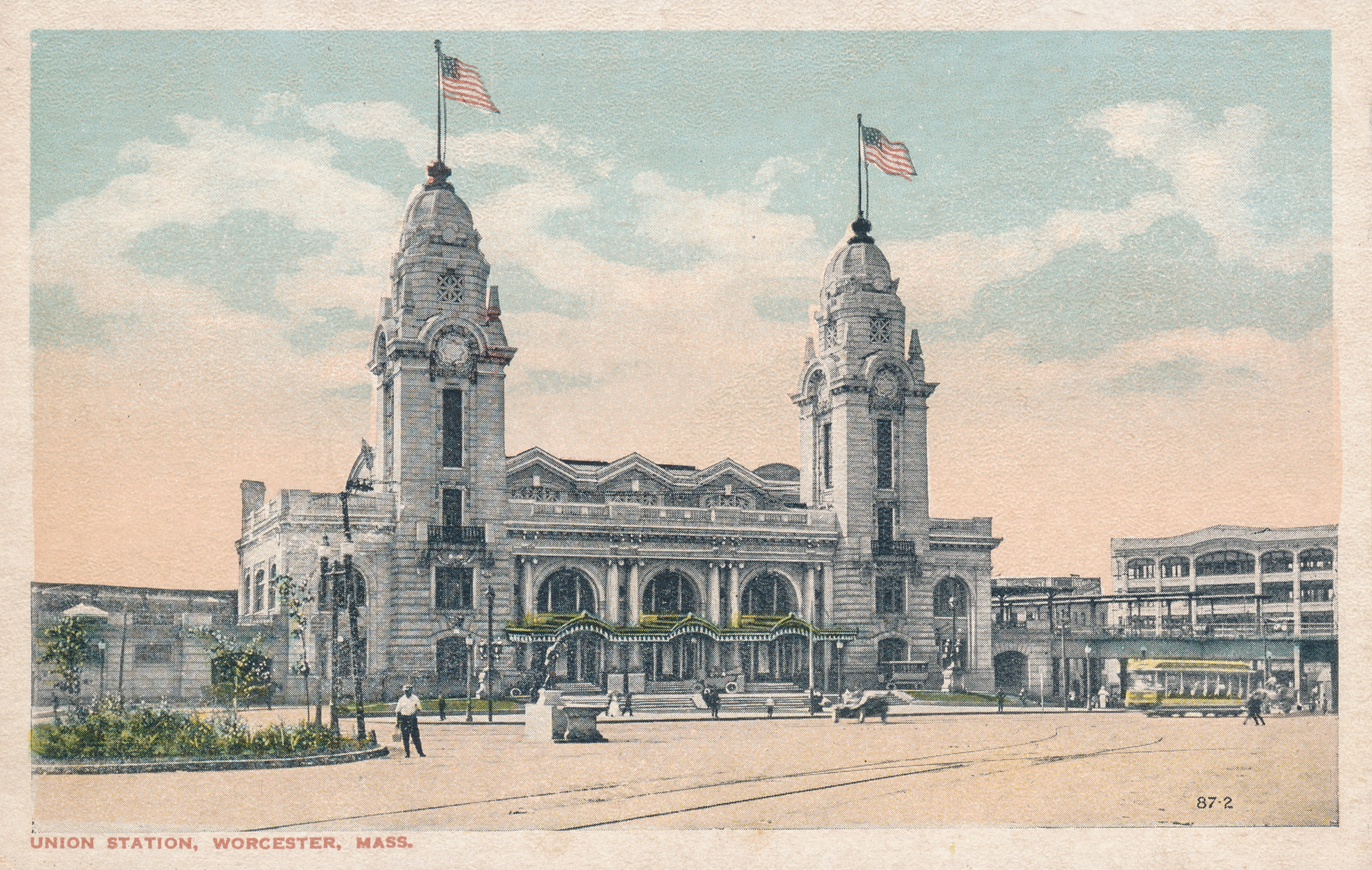 In early image of the Union Station building in Worcester, Massachusetts. An imprint on the rear of the card reads, "Pub. by J.J. Williams, Worcester, Mass., U.S.A."